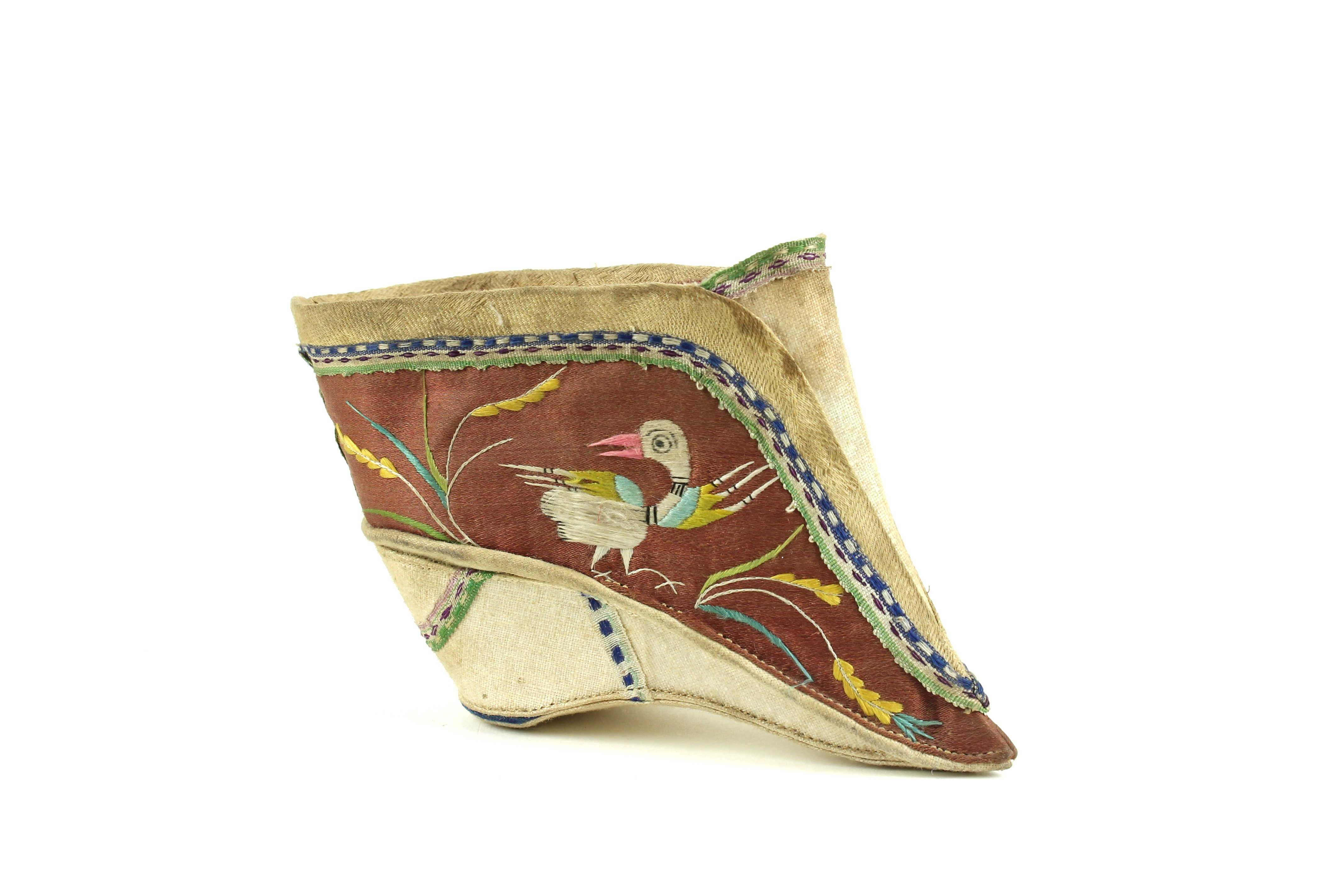 Woman's "Loto" shoe. China, 19th century